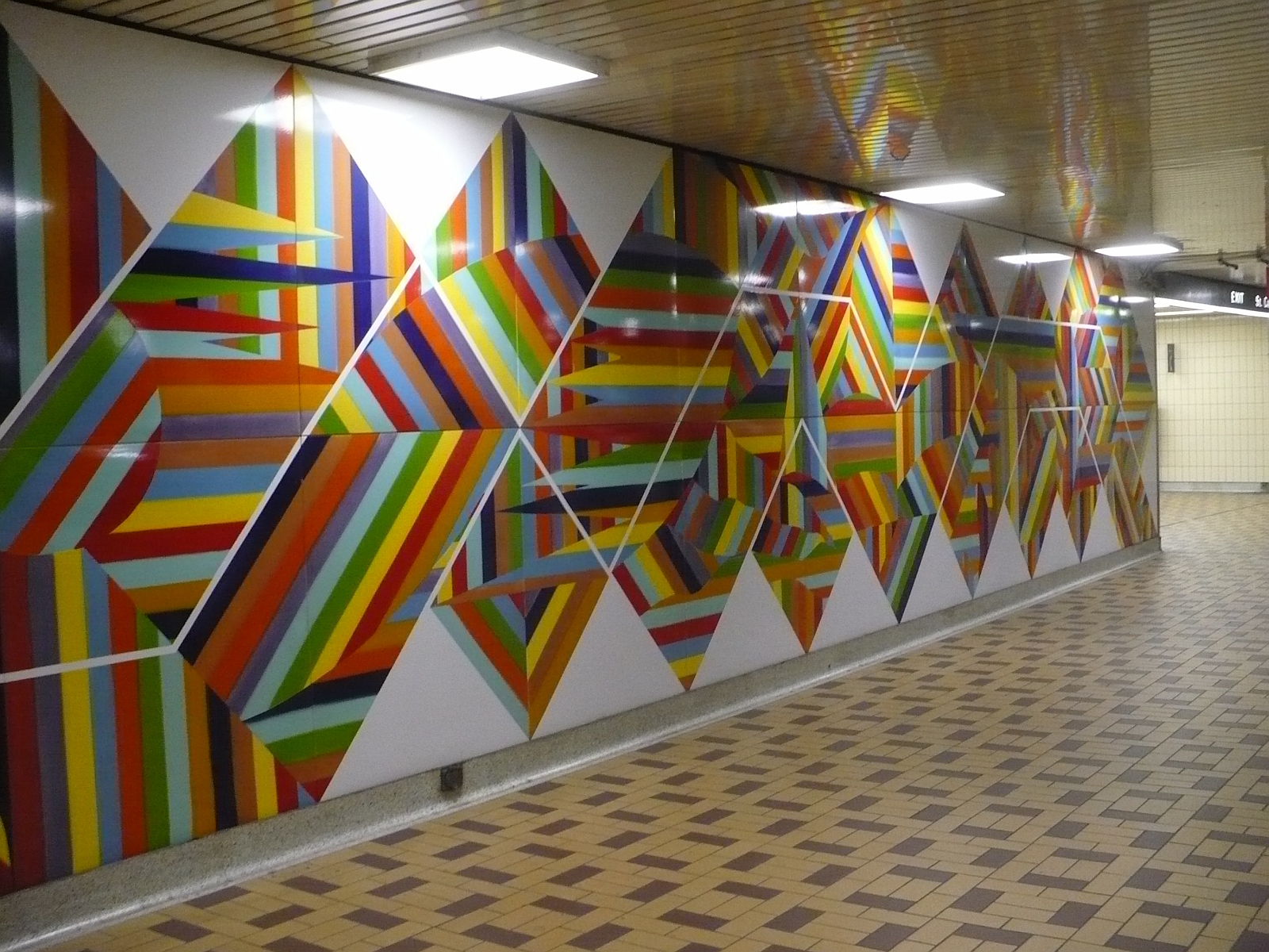 St. Clair West TTC subway station in Toronto. Artistic tiled wall.